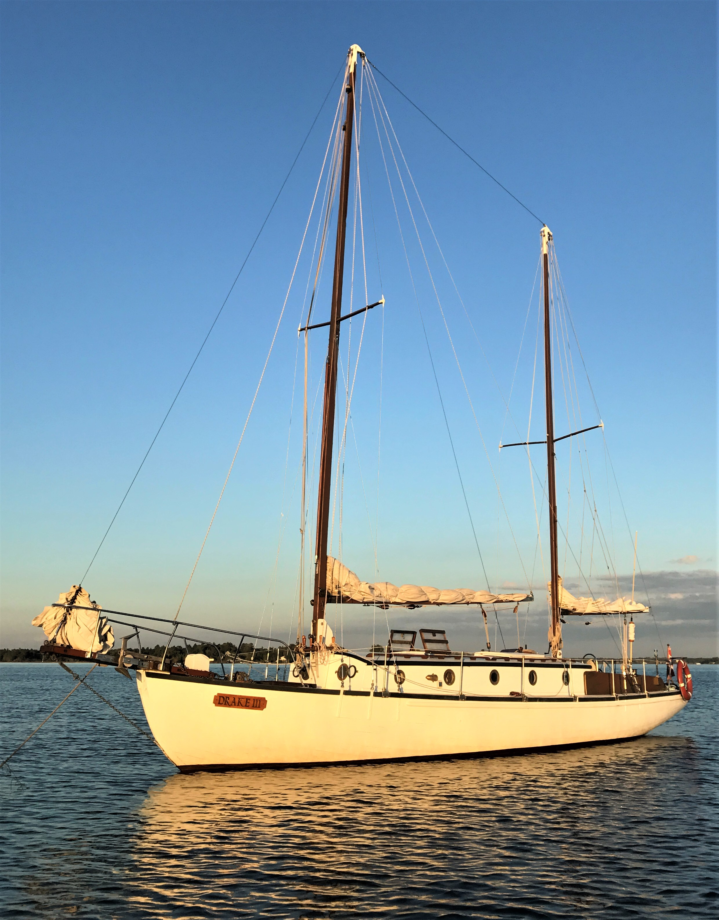 46ft LOA 1947 ketch Drake III, owned and maintained by Dave Hadfield, at anchor at Beausoleil Island, 2018.